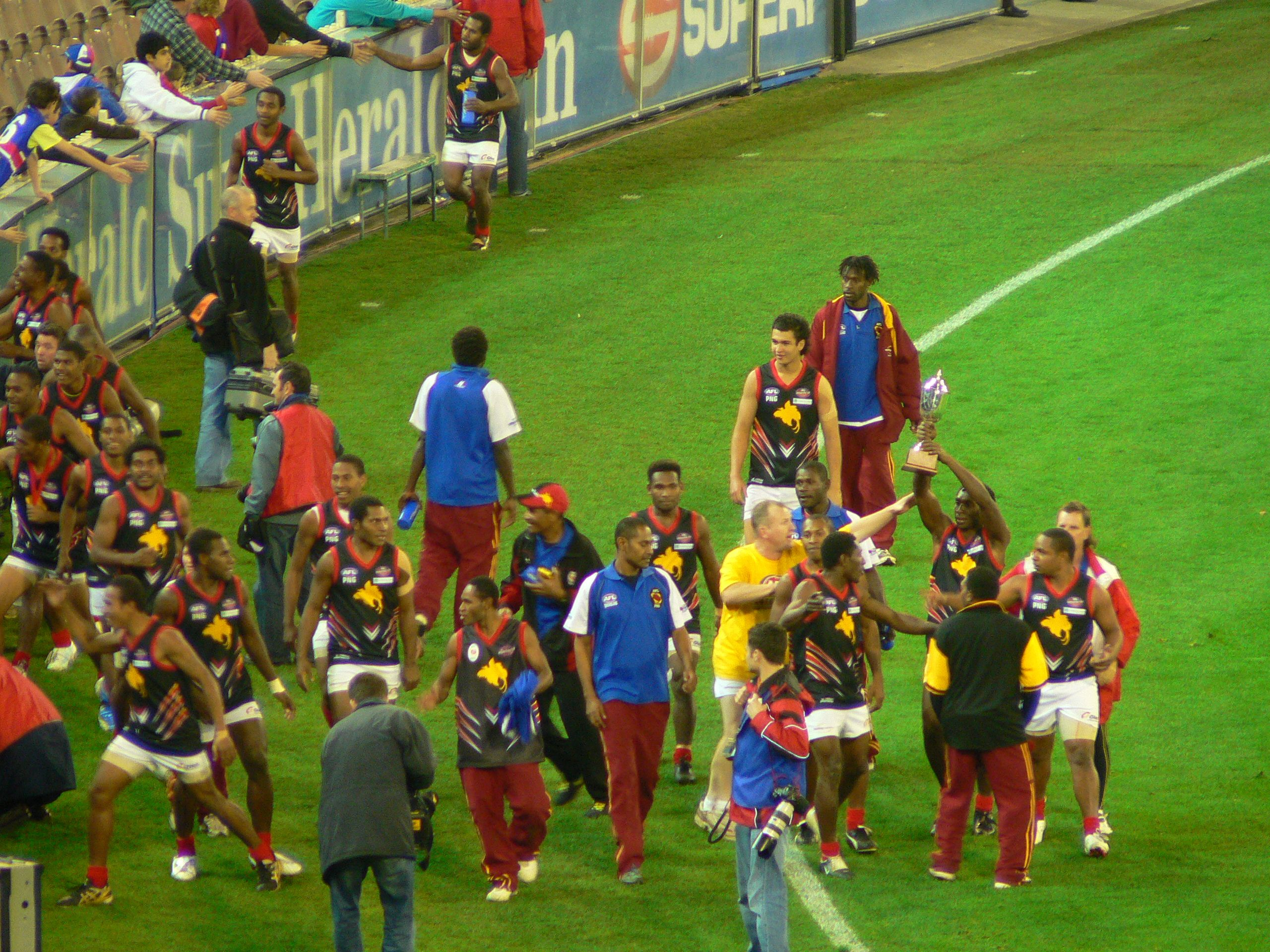 Scenes of jubilation as Papua New Guinea's Mosquitos celebrate taking the International Cup from New Zealand to become International champions.